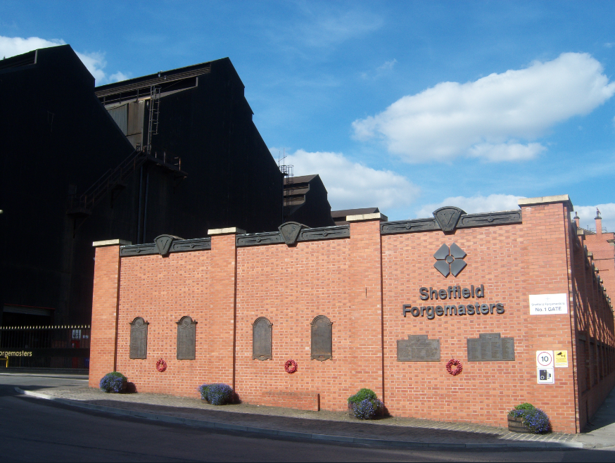 Sheffield Forgemasters